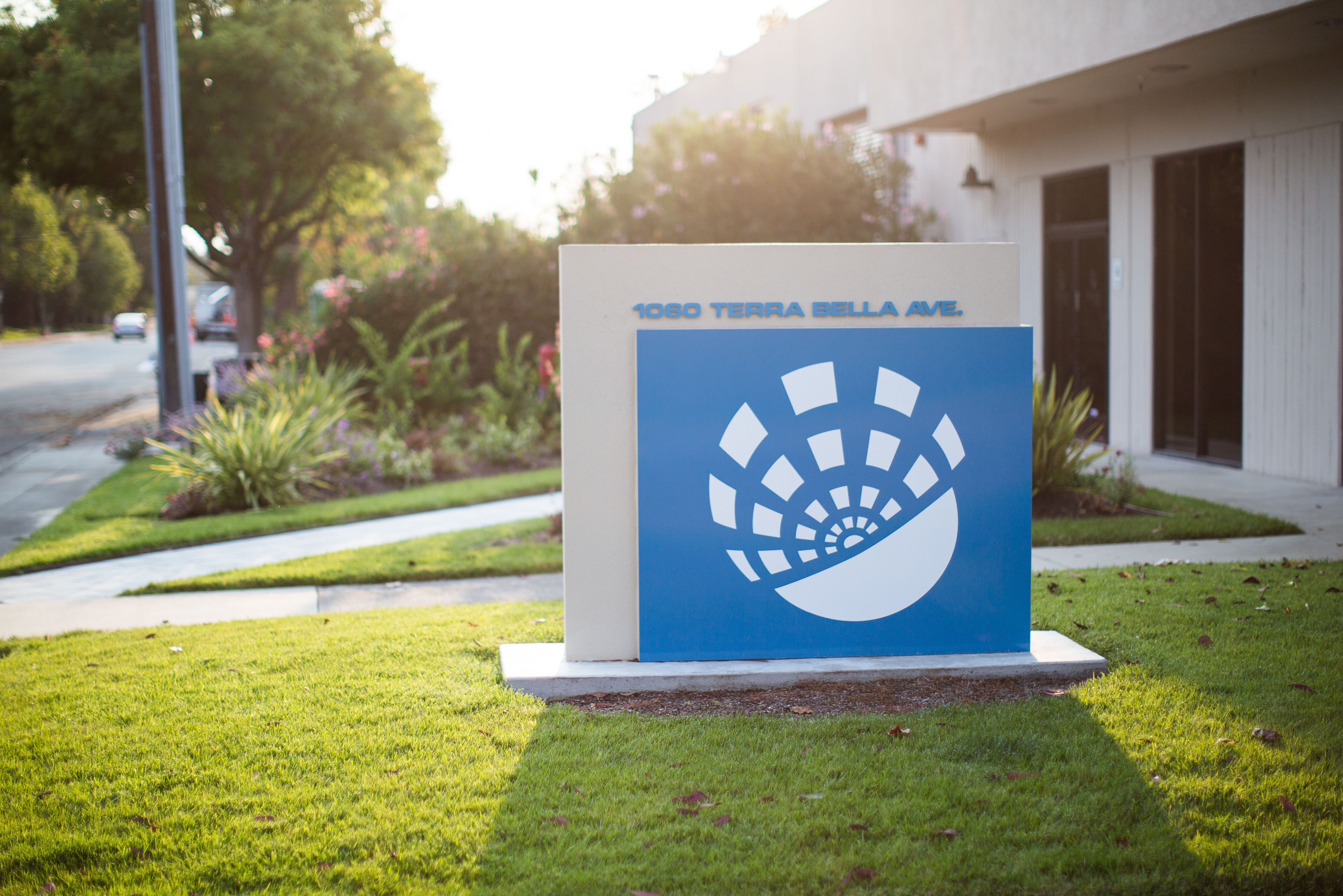 Skybox Imaging sign in Mountain View, California On Flickr